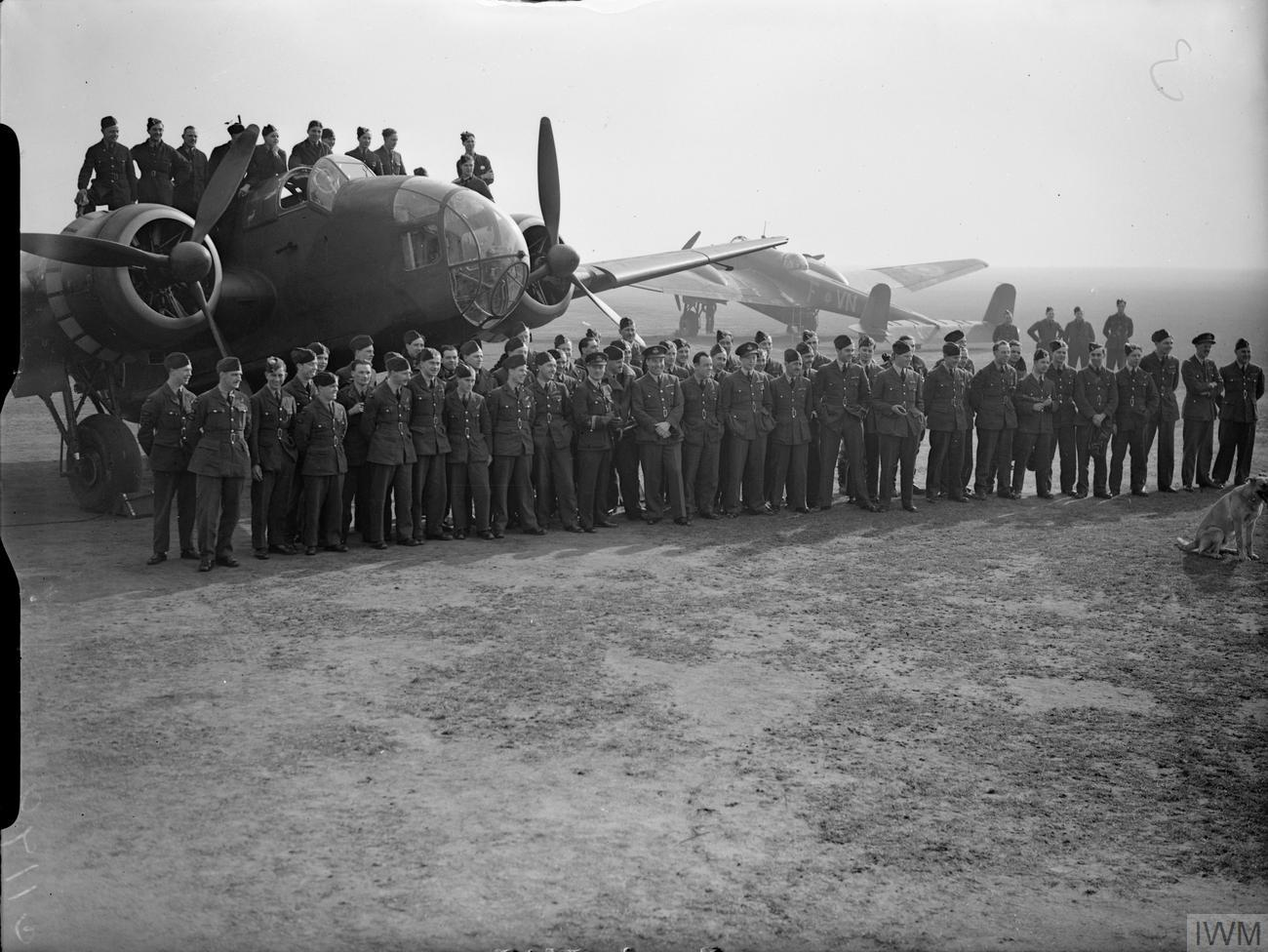 Royal Air Force Bomber Command, 1939-1941. Aircrews of No. 50 Squadron RAF gather in front of their Handley Page Hampdens at Waddington, Lincolnshire, shortly after returning , from Kinloss, Morayshire, from where they mounted a raid on the German fleet in the Bergen Fjord, Norway, on 9 April 1940.